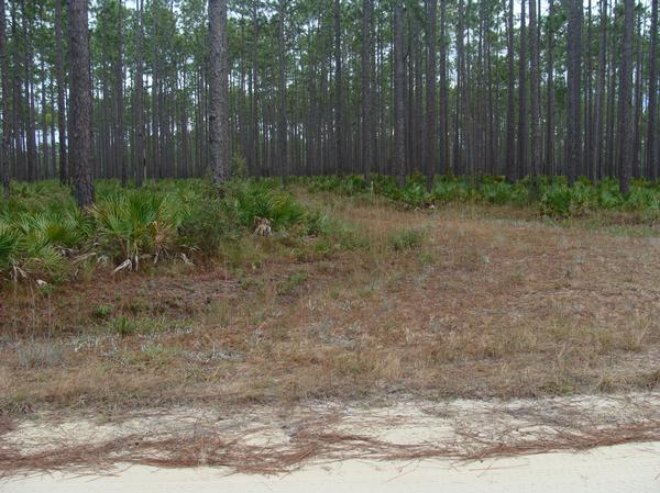 Photograph within the Wildlife Management Area of the Apalachicola National Forest off of Hwy 67